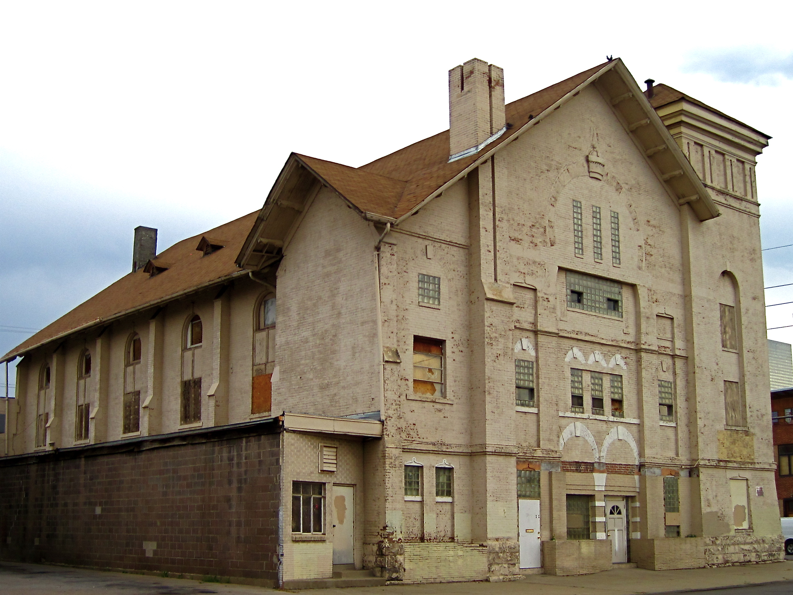 National Register 10/10/1978, 5DV.144 This temple was the first major Jewish synagogue in the Denver area when it was built in 1882. Designed by prominent architect Willoughby J. Edbrooke, and supervised in Denver by his brother Frank E. Edbrooke, its original appearance was eclectic Victorian with Moorish and Romanesque details. A fire destroyed most of the building in 1897, and the brick and stone trimmed temple was rebuilt with simplified and more subtle detailing on a design by Frank Edbrooke.